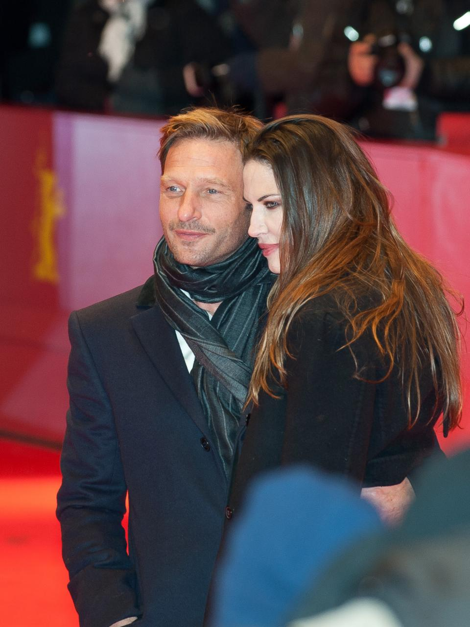 German actor Thomas Kretschmann with Brittany Rice, Opening of the 62nd Berlin International Film Festival.